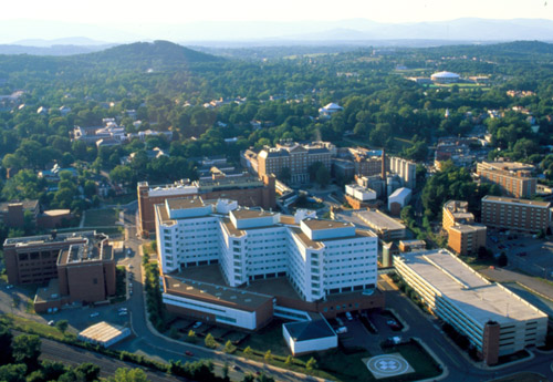 Aerial view of UVA Health System campus just inside the city limits of Charlottesville, Virginia.